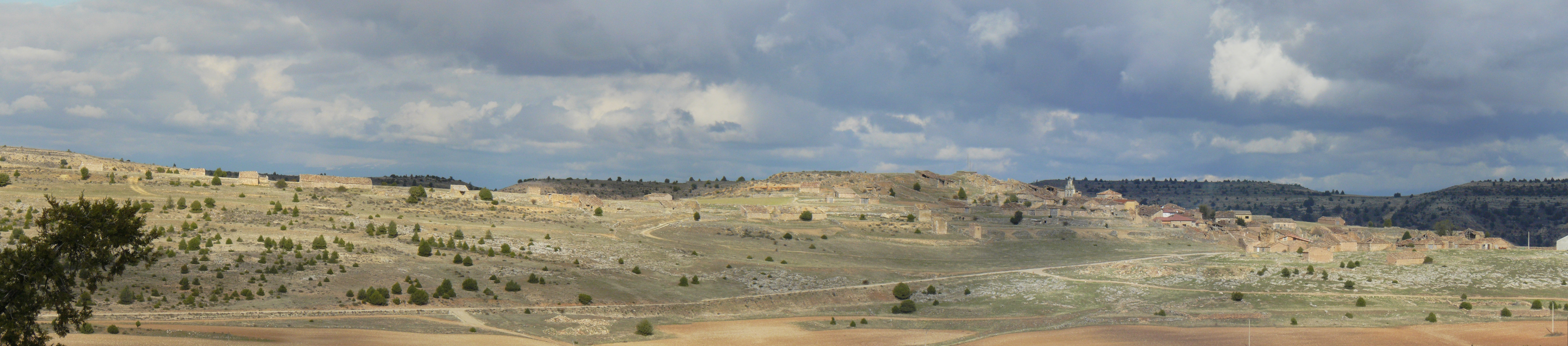 Torremocha de Ayllón from the South, Soria, Spain